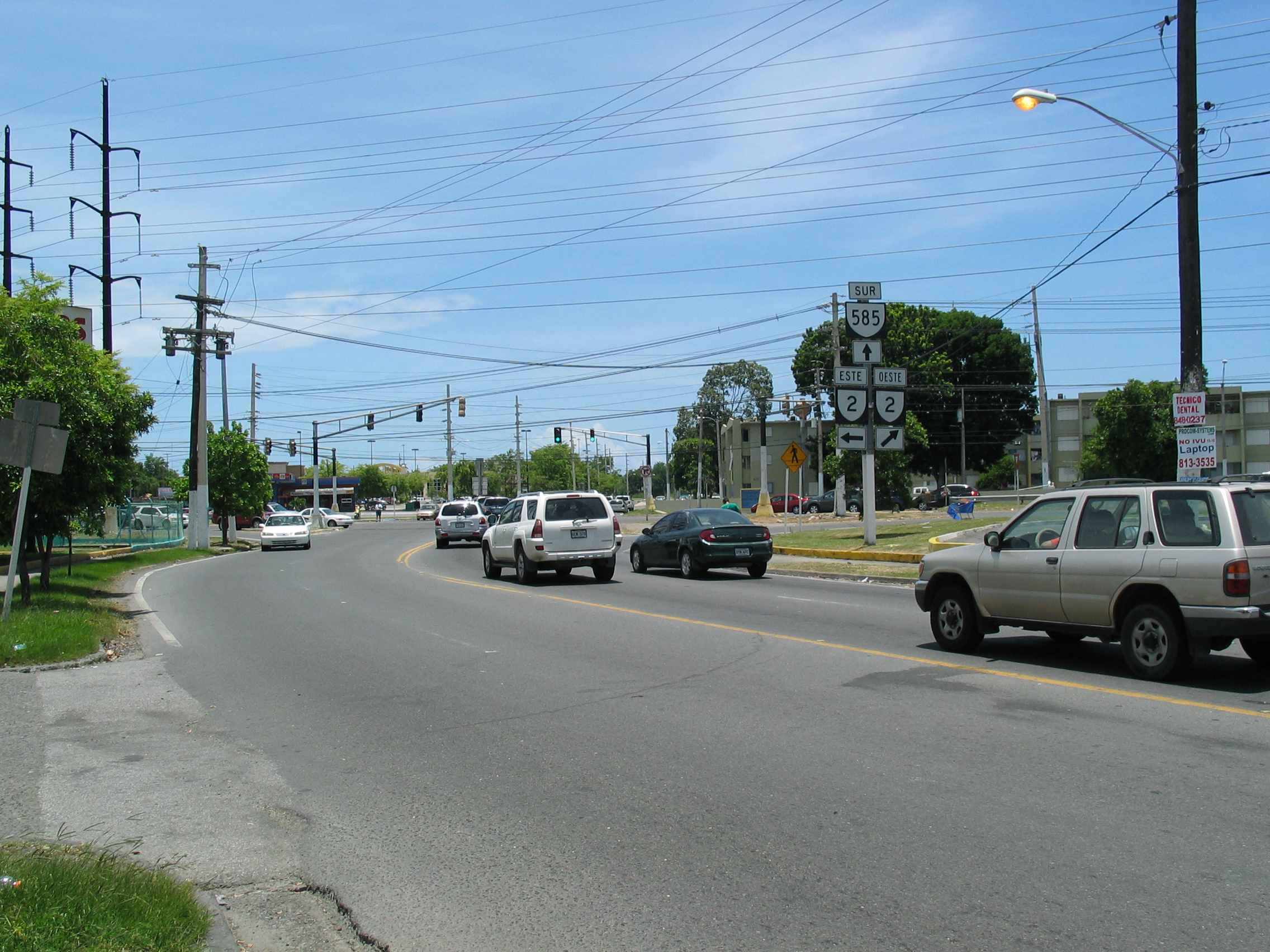 Carretera PR-585 interseccion con la PR-2, mirando hacia el sur, en Barrio Canas, Ponce, PR (IMG_3375)